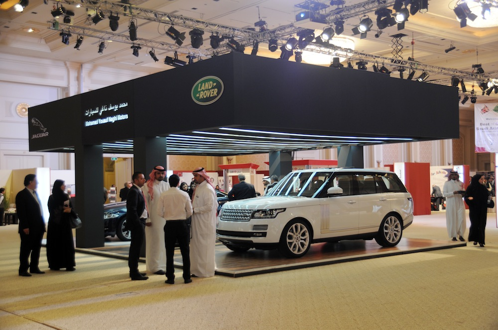 Mohamed Yousuf Naghi Motors sponsored the Best of Britain Saudi Arabia 2013 exhibition, showcasing the brands and products that Britain has established. The 3-day event was inaugurated on 10th March 2013 by Sir John Jenkins KCMG LVO, Her Britannic Majesty’s Ambassador to Saudi Arabia and held under the patronage of HRH Prince Ambassador Khaled bin Saud bin Khaled Al Saud. The Jaguar XJ and All new Range Rover 2013MY were showcased at the stand